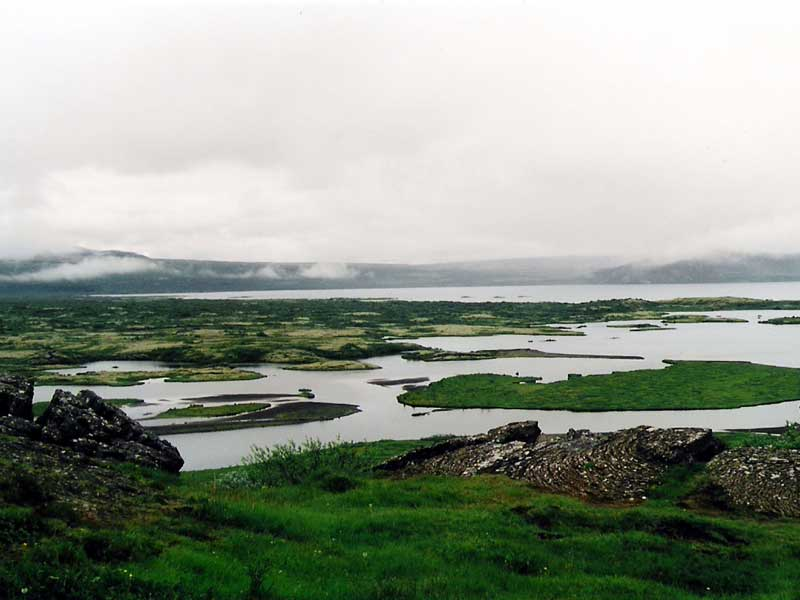 The ridge between the tectonic plates of Eurasia and North America, photograph by Matias Ärje